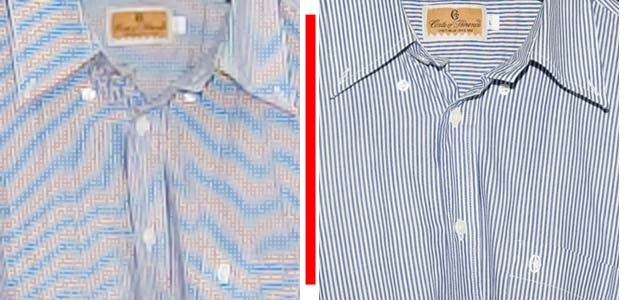 Example of digital photo with buel moiré